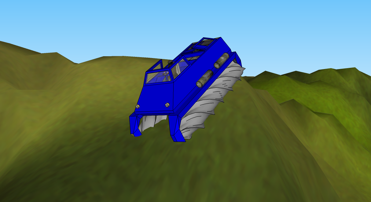 the zil-29061 offroad truck